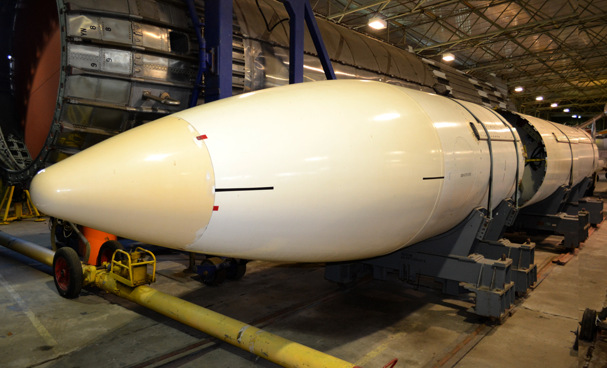 Inert Polaris A3 round at the National Museum of Scotland, East Fortune